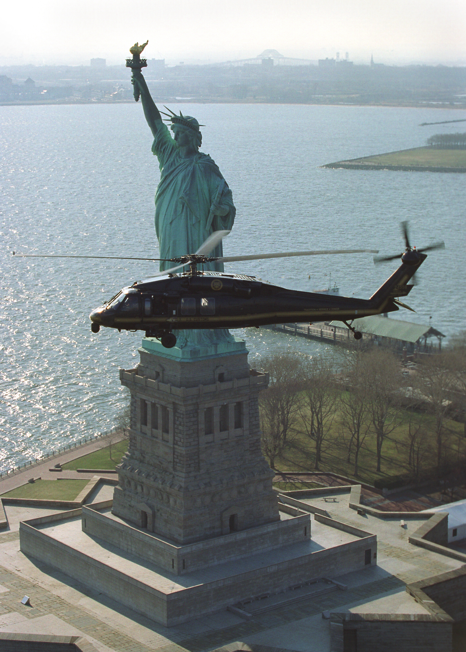 Helicopter flying in front of the Statue of Liberty, New York. Bureau of Immigration and Customs Enforcement office of Air and Marine Interdiction provides airspace security over New York City.